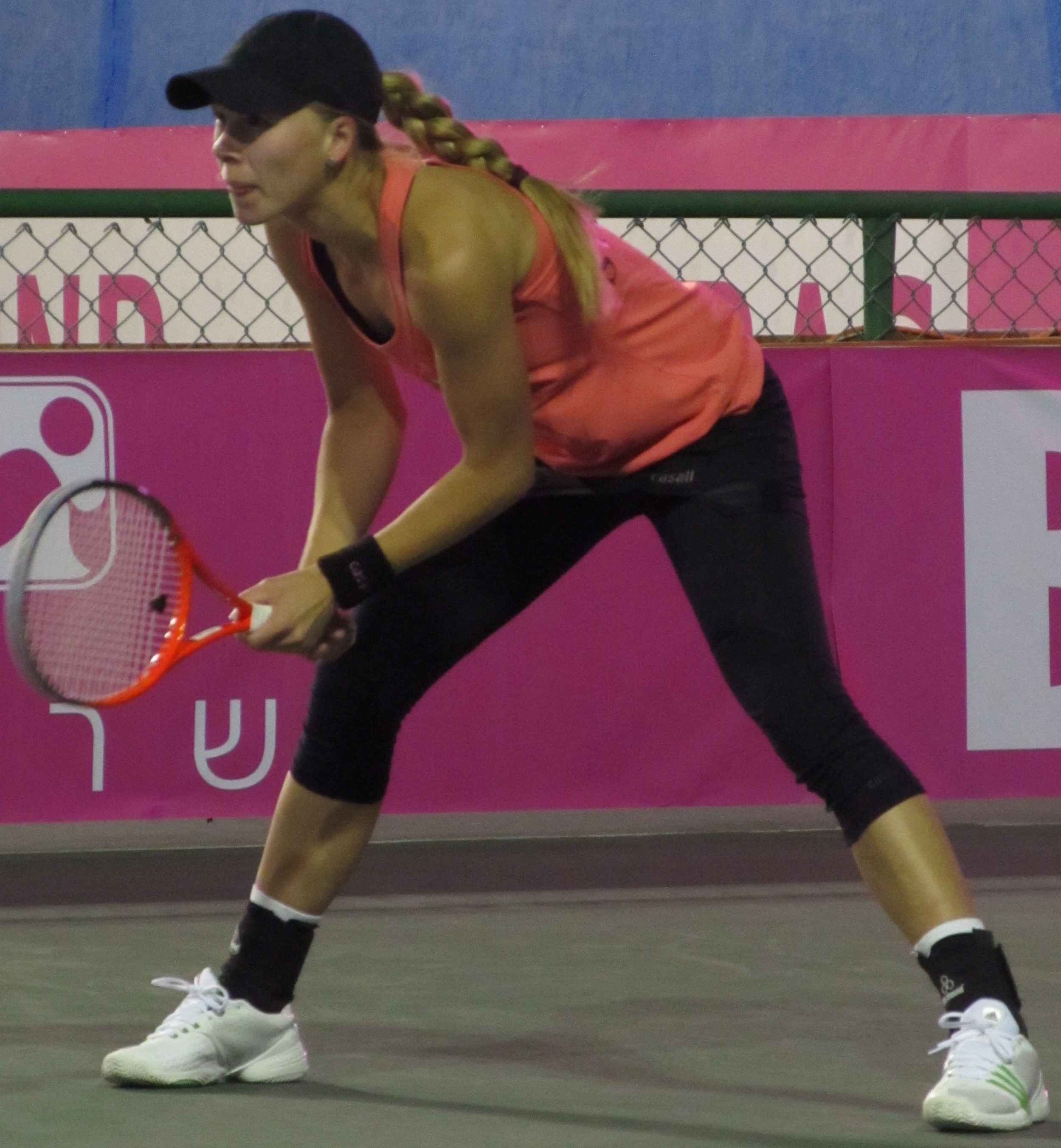 The tennis player Johanna Larsson of Sweden during her match against Tímea Babos of Hungaria in the 2nd day of Fed Cup Group I 2012 Europe/ Africa in Eilat, Israel.